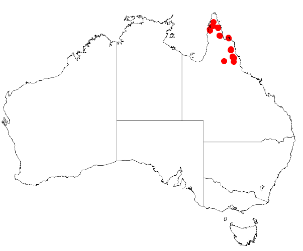 Acacia armillata Occurrence data from Australasia Virtual Herbarium downloaded from on 8 December 2018